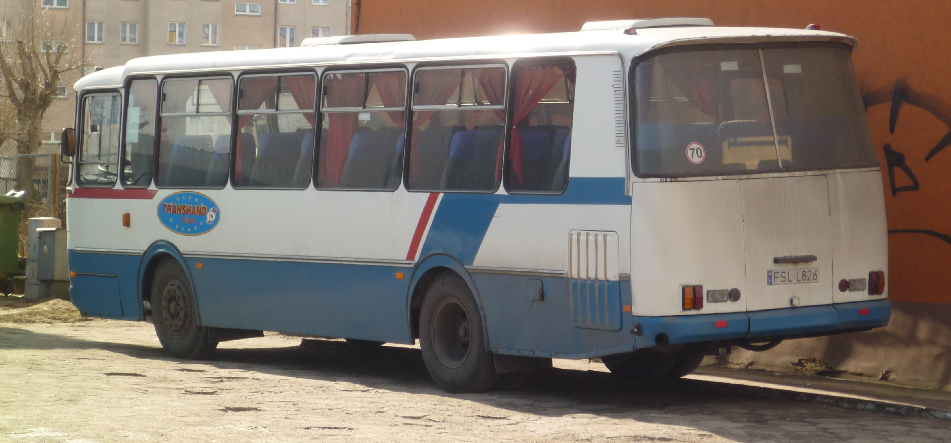 Autosan H9-21 bus (FSL L826) in Słubice, Poland. Transhand Słubice operator.